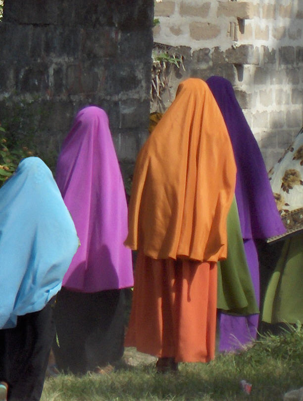 This is an image of Cultural Fashion or Adornment from Tanzania